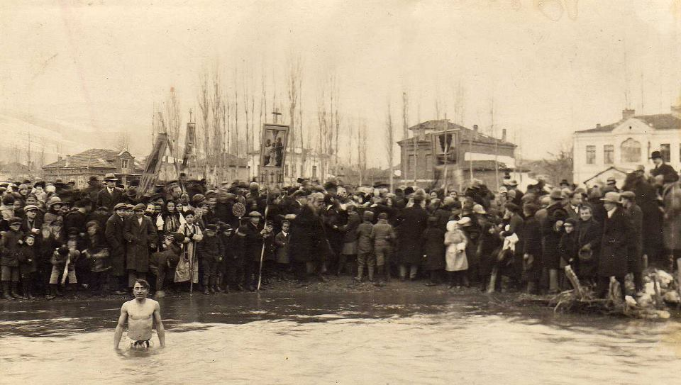 Blessing of Waters (Vodokrst) in Kičevo, Macedonia in 1936